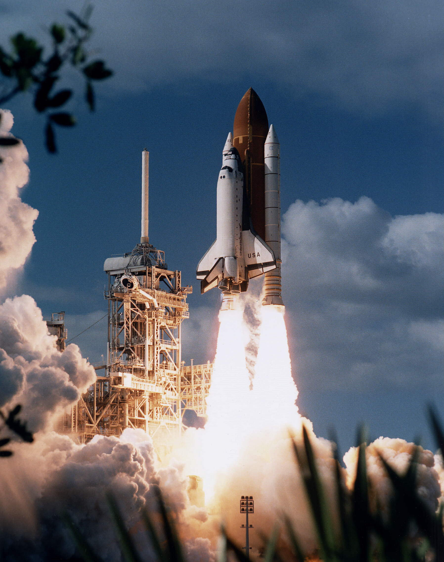 The Launch of Space Shuttle Columbia on STS-80.